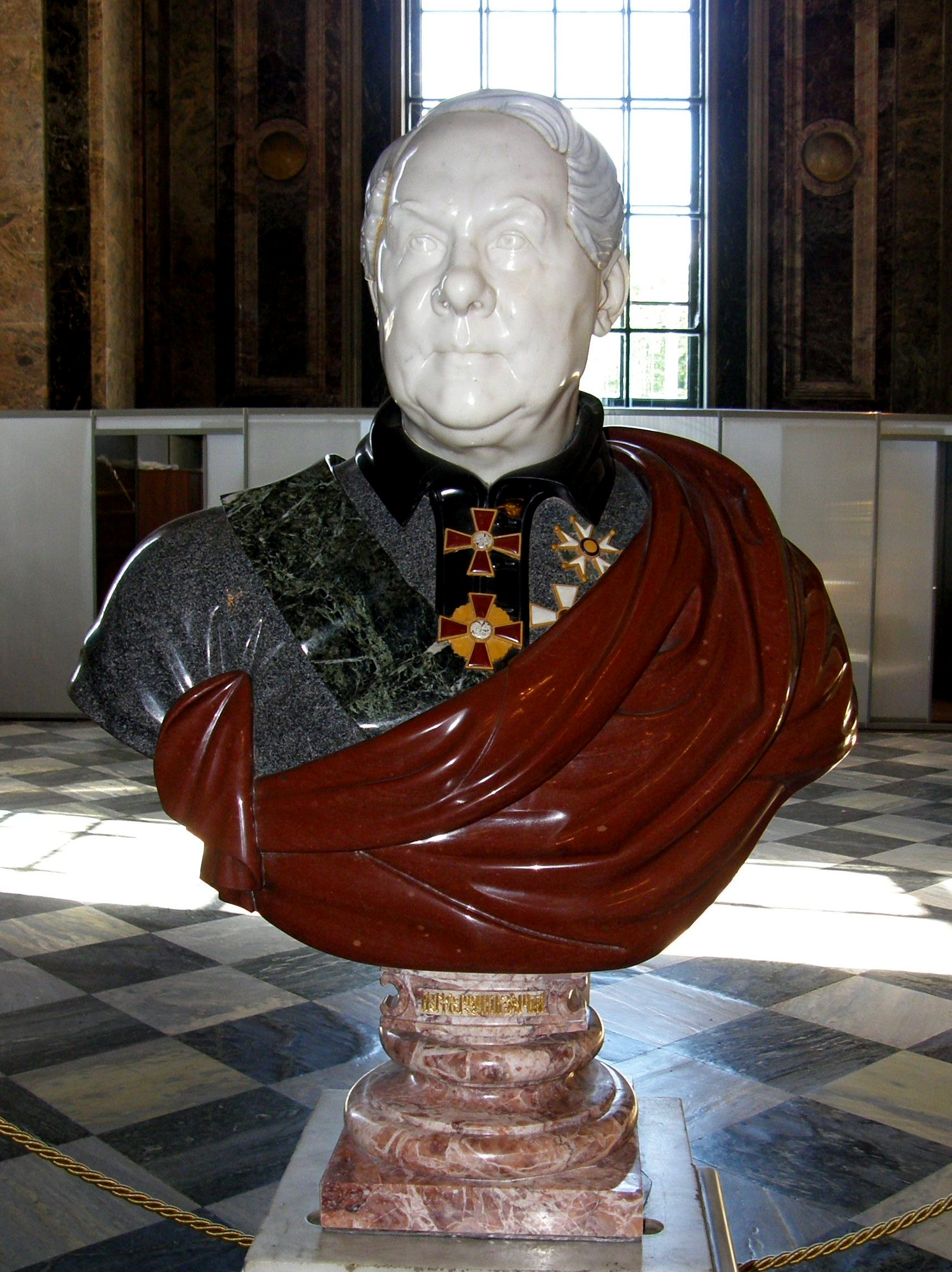 St.Isaac's. Bust of Auguste de Montferran